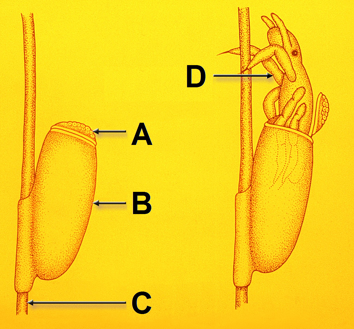 This illustration depicts the morphologic characteristics of a typical louse egg, and the manner in which it is attached to the mammalian host’s hair shaft. The eggs are glued to the hairs of the mammalian host. All louse eggs have a cap. During the hatching process the young louse pushes at the “cap” from the inside forcing off the cap, thereby, enabling the nymphal louse to emerge from the egg.